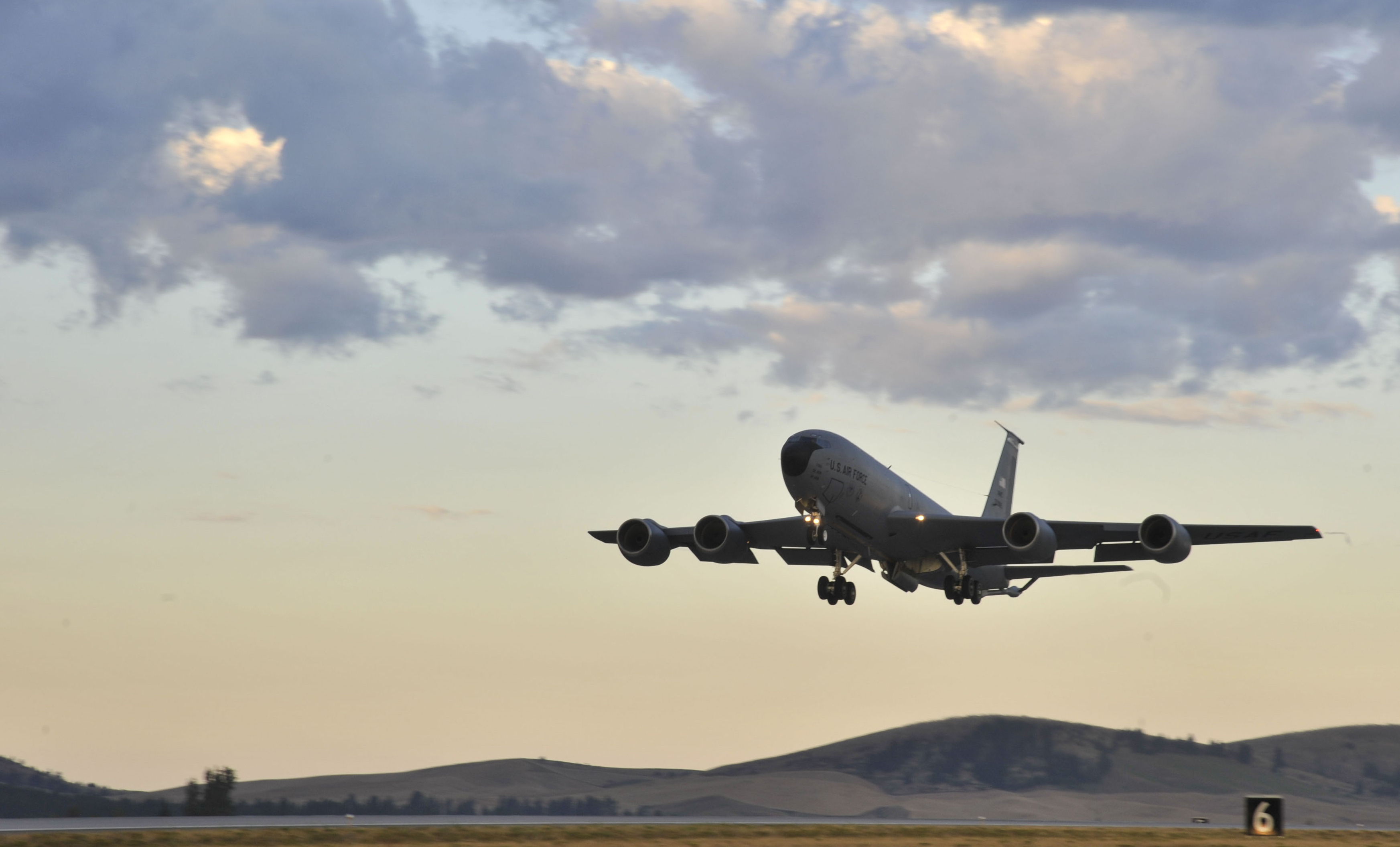 A KC-135 Stratotanker takes off during an operational readiness exercise at Fairchild Air Force Base, Wash., Aug. 22, 2014. Seven tankers were launched within minutes of each other at the conclusion of the Wing Inspection Team-planned exercise to ensure the base's preparedness for various potential emergency scenarios, and to evaluate the base's ability to accomplish the mission. (U.S. Air Force photo by Senior Airman Mary O'Dell/Released)